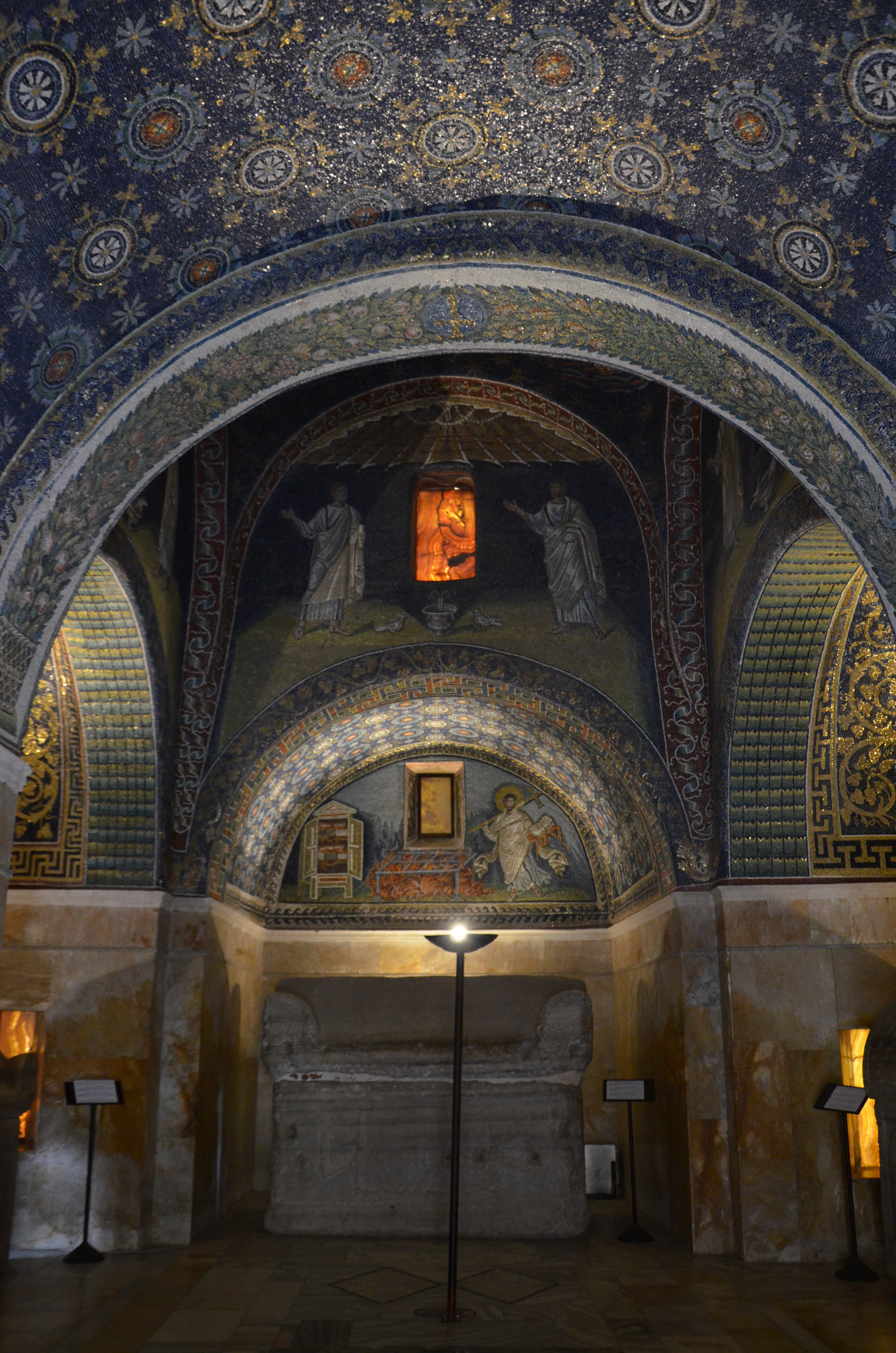 General view of the interior of the mausoleum with Galla Placidia's sarcophagus in the middle, Mausoleum of Galla Placidia (died 450), daughter of the Roman Emperor Theodosius I, Ravenna, Italy